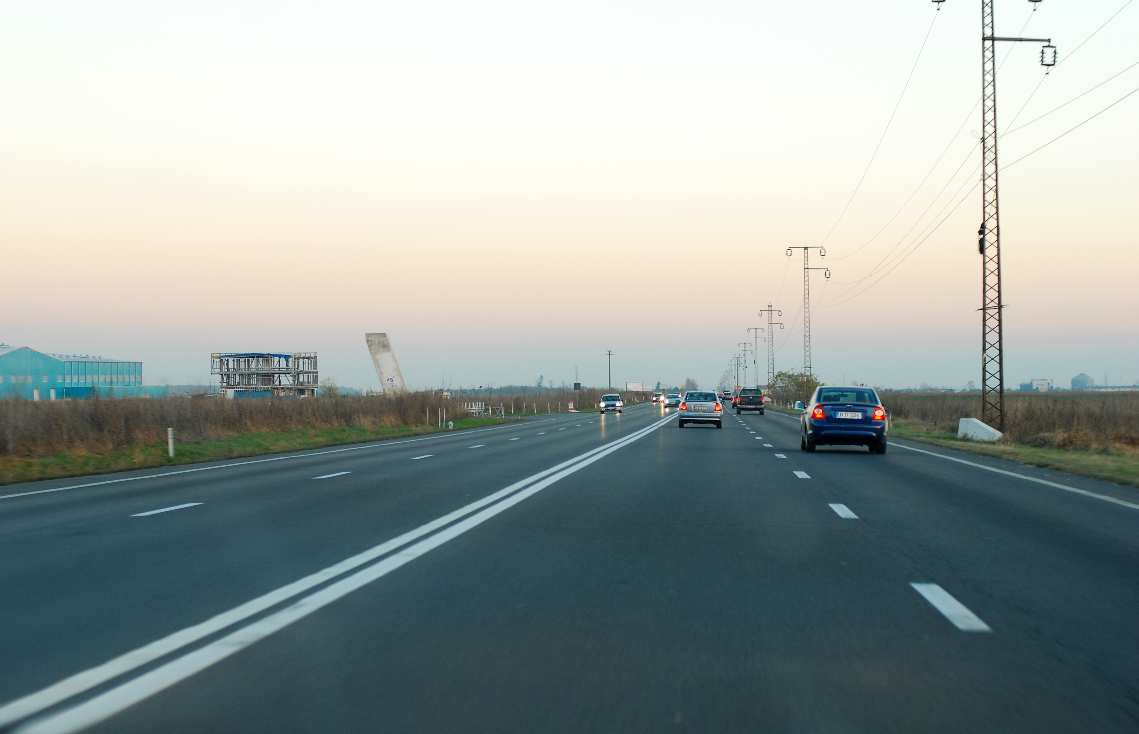 Romanian road DN1 (part of European road E60) at the 45 degrees of latitude marker, in Prahova County, Romania